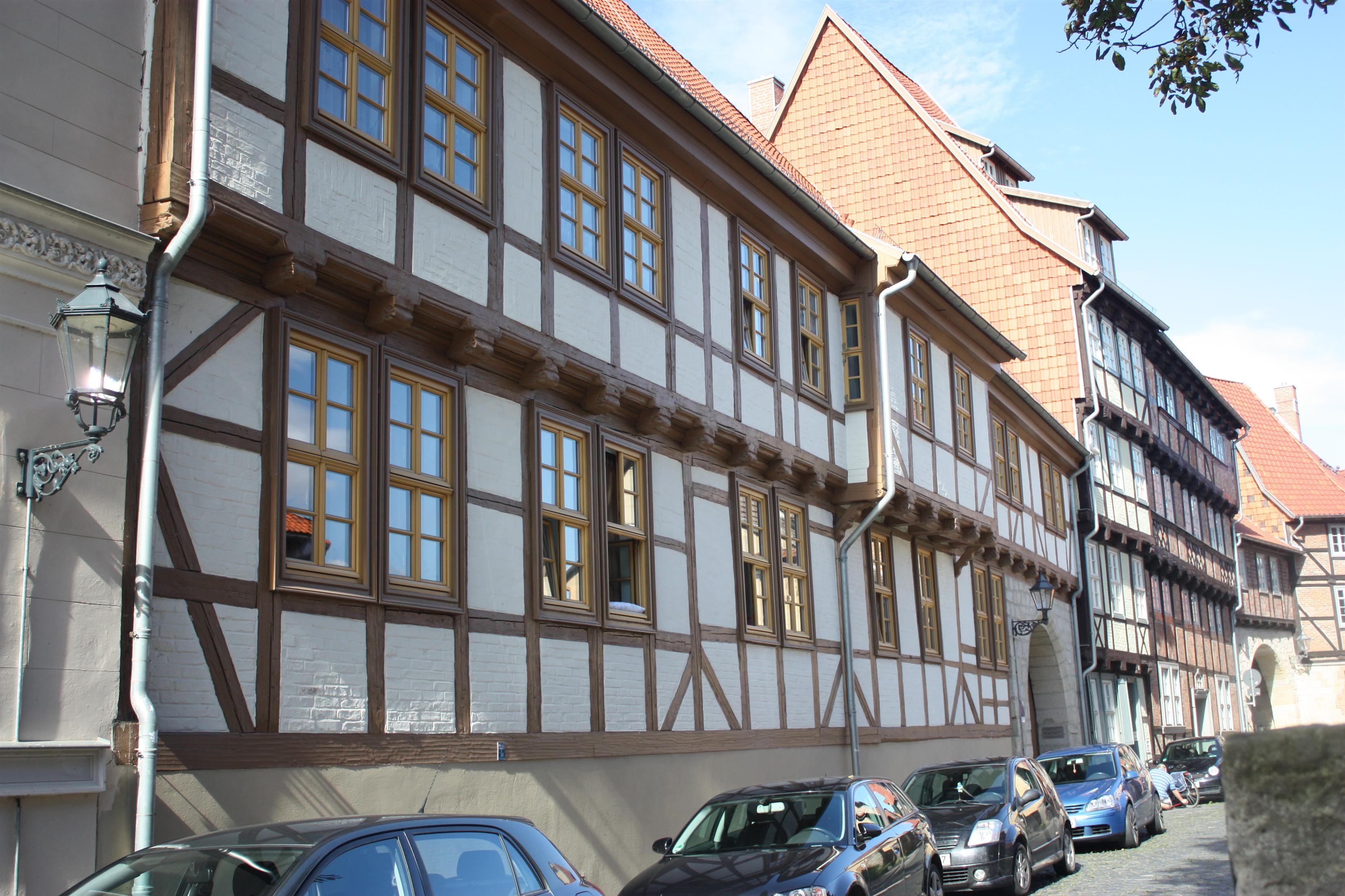 This is a photograph of an architectural monument.It is on the list of cultural monuments of Quedlinburg Quedlinburg Lange Gasse